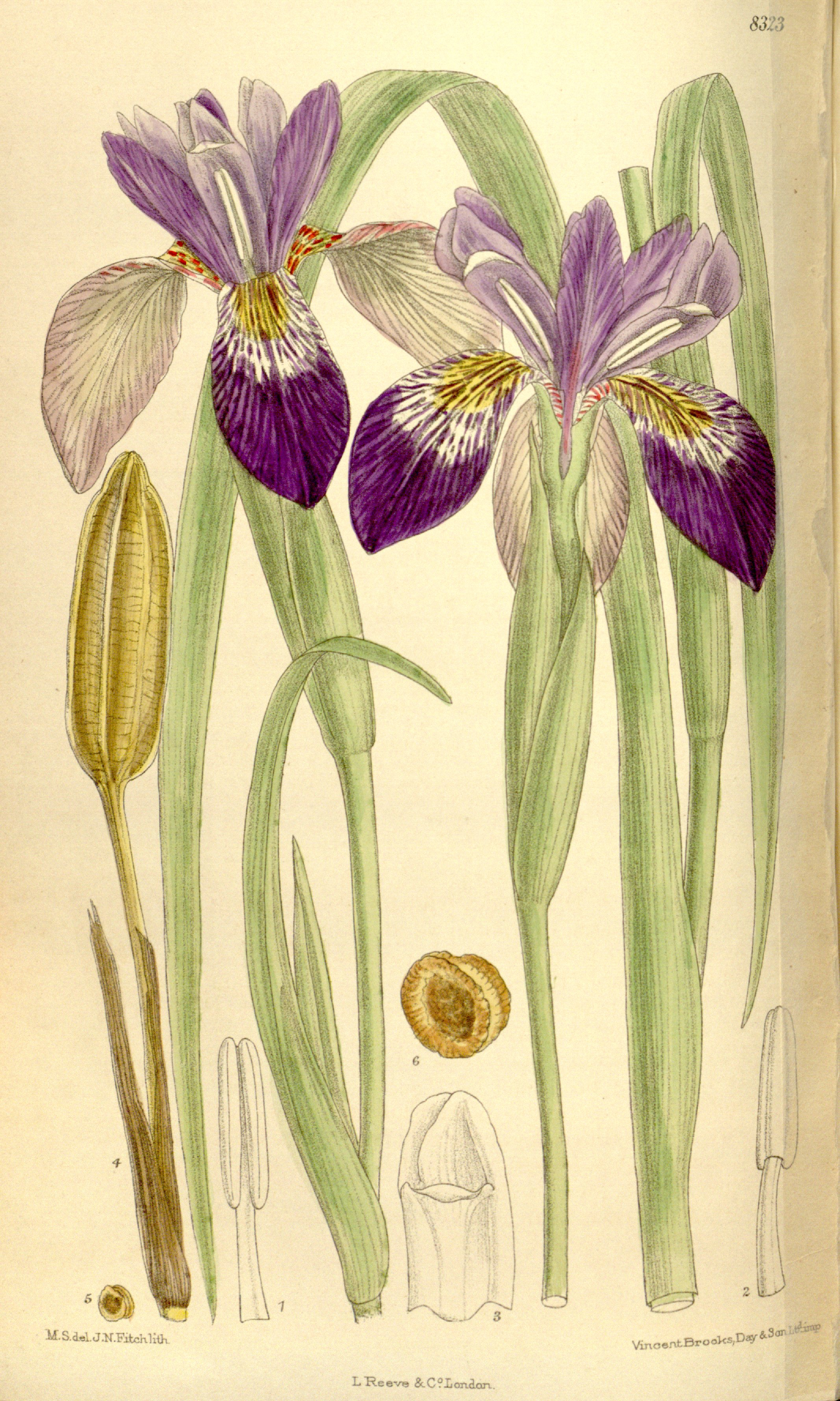 Iris clarkei, Iridaceae